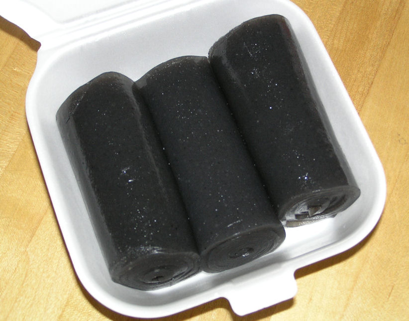 Black Sesame Roll, Hong Kong cuisine